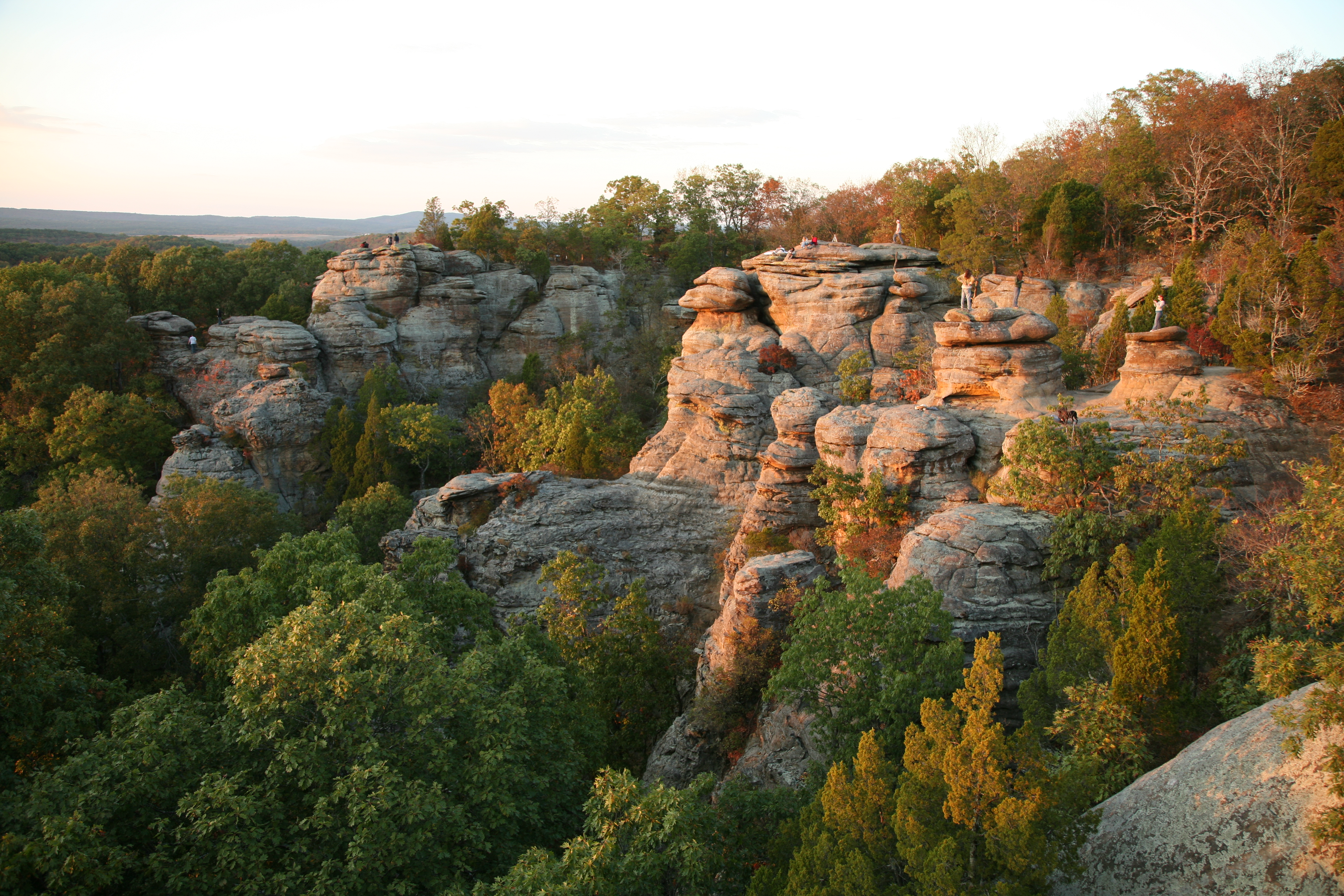 Garden of the Gods, Shawnee National Forrest, Illinois